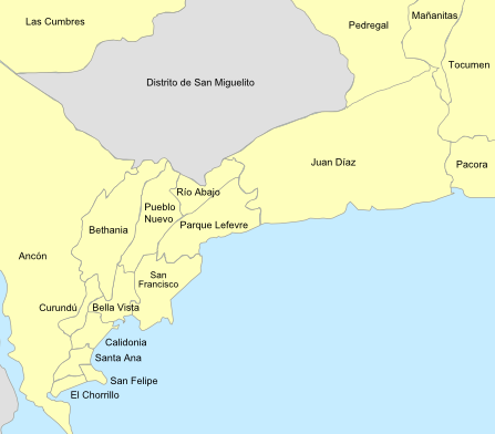 Map of Panama City boroughs.